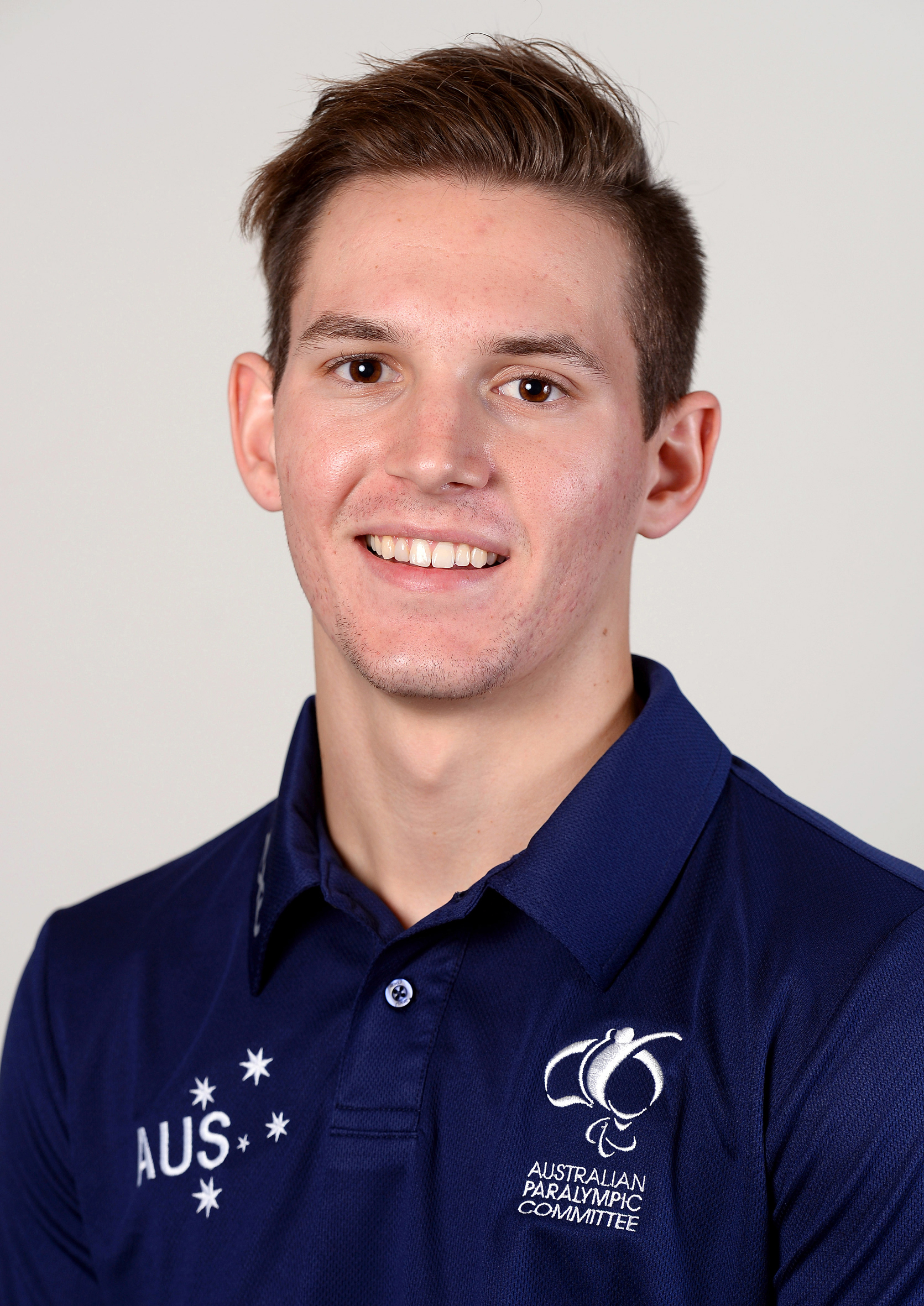 Portrait photograph of Rheed McCracken taken at team processing session for shadow members of 2016 Australian Paralympic team